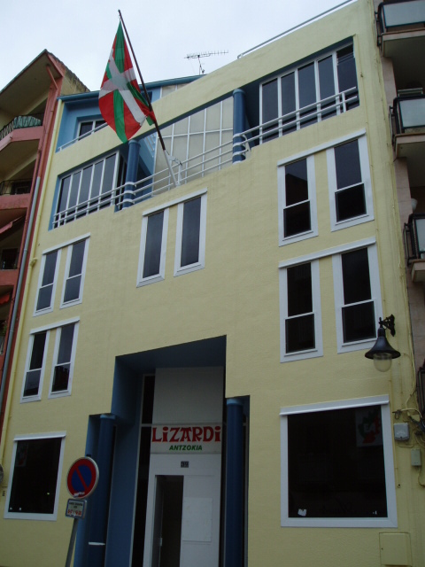 Eusko Alkartasuna headquarters in Zarautz (Gipuzkoa).